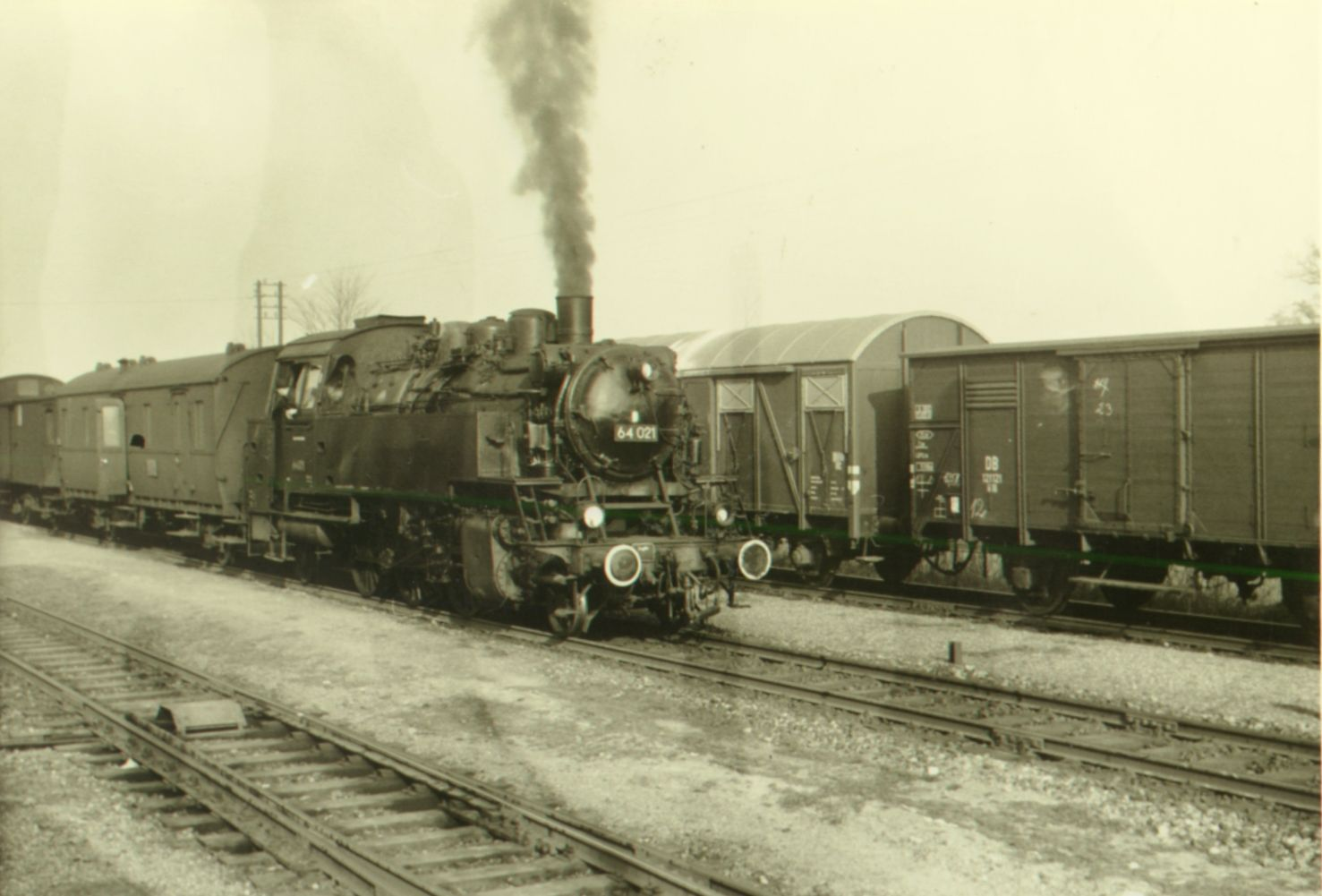 Personenzug und Güterzug Auf dem Bahnhof Rohrenfeld